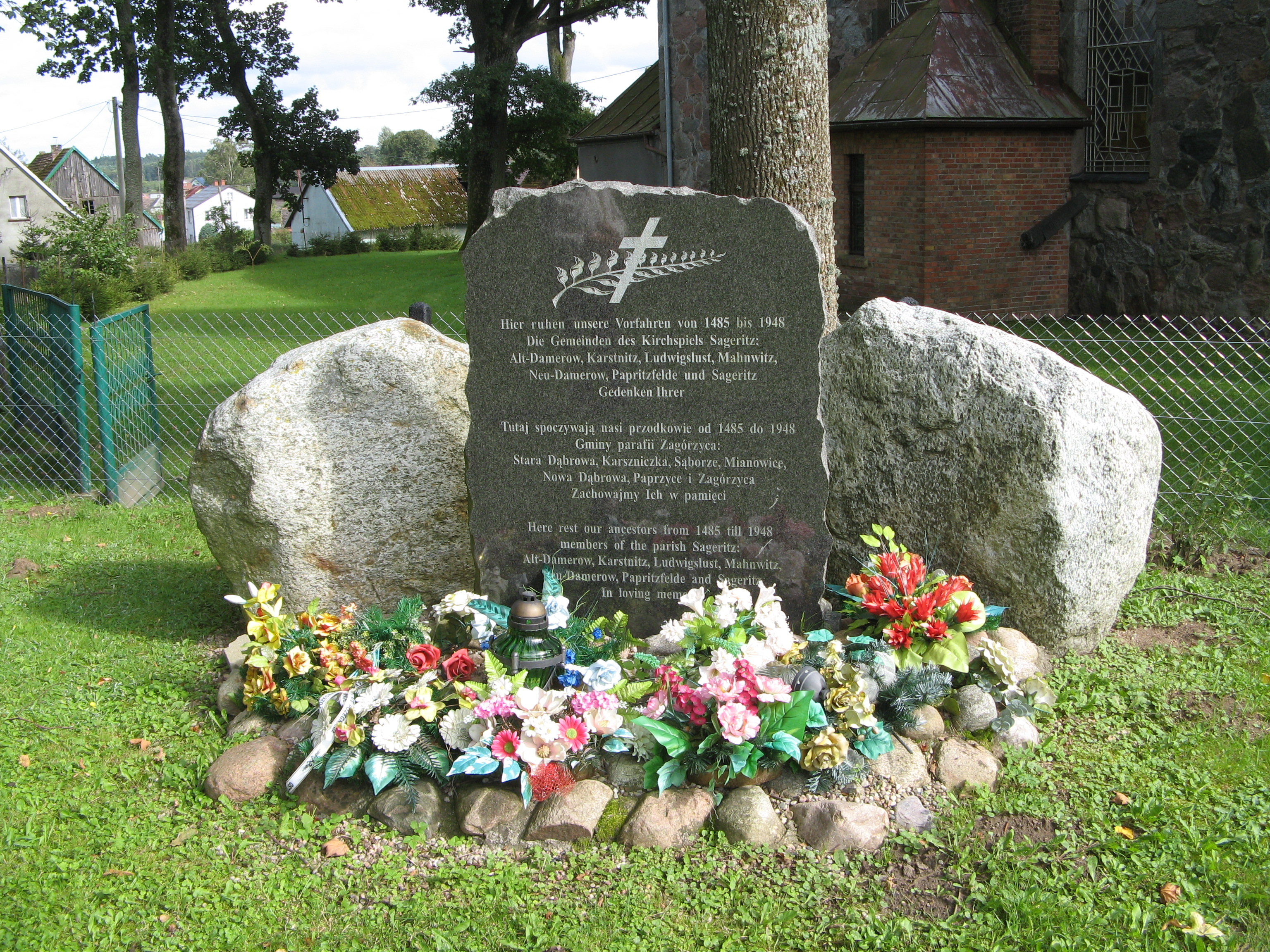 Commemorative Stone near the church of Zagórzyca, Poland (before 1945 german Sageritz, Pommern